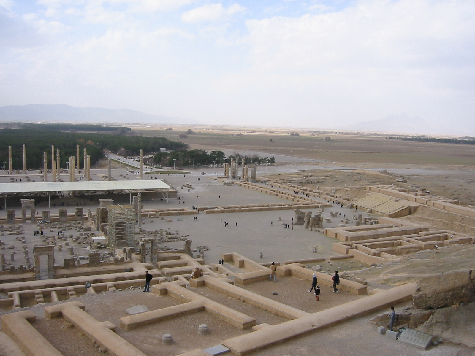 my own picture better resolution